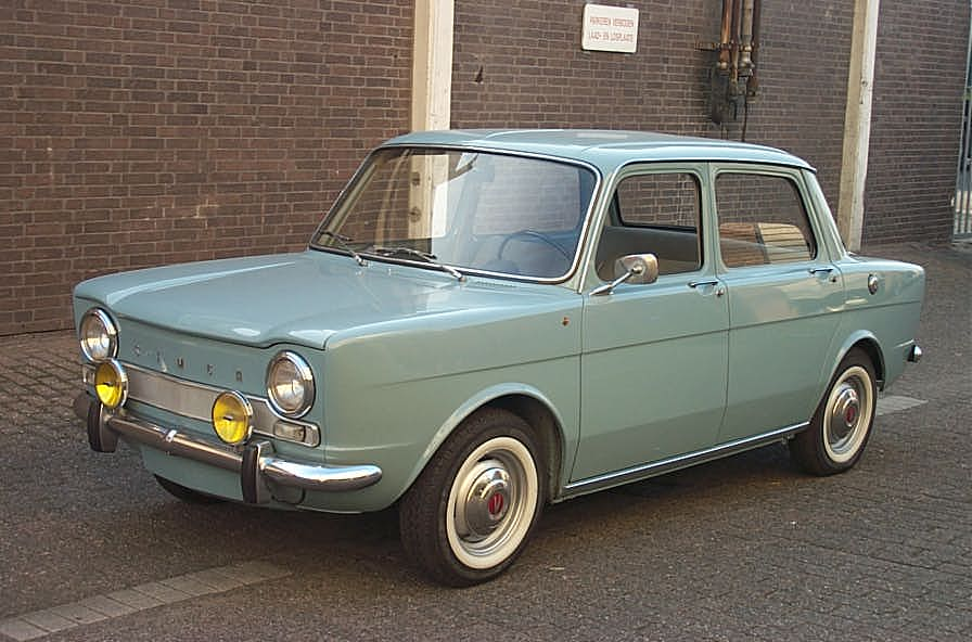 1963 Simca 1000 saloon, alice blue, interior in gray fake leatherFirst registered on 22 August 1963, 51.138 km at the time the photo was taken The vehicle was on sale at the Garage de l'Est at the time the image was uploaded